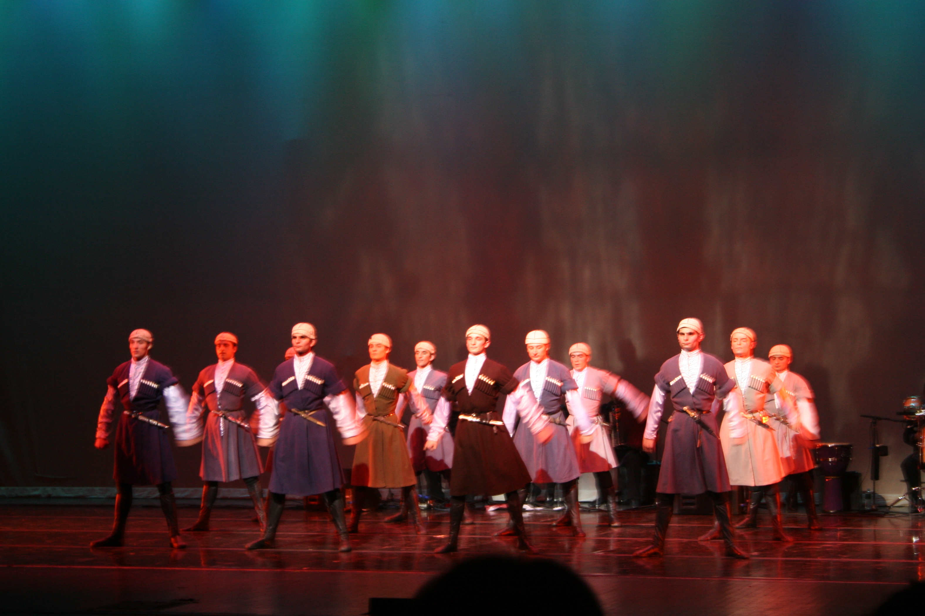 Georgian folk dance "Davluri", performed by Sukhishvili Ensmeble, November 2007.